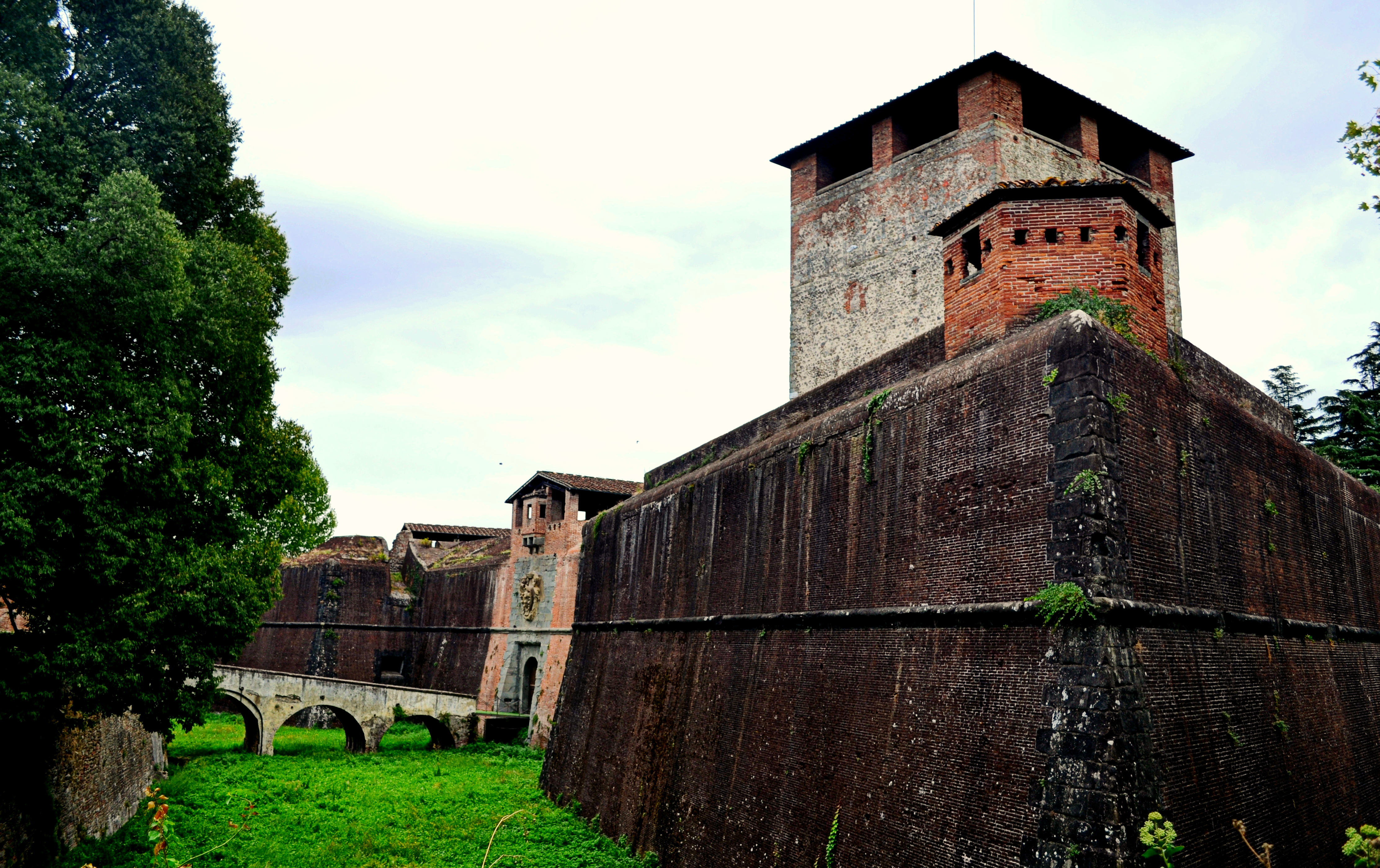 This is a photo of a monument which is part of cultural heritage of Italy.